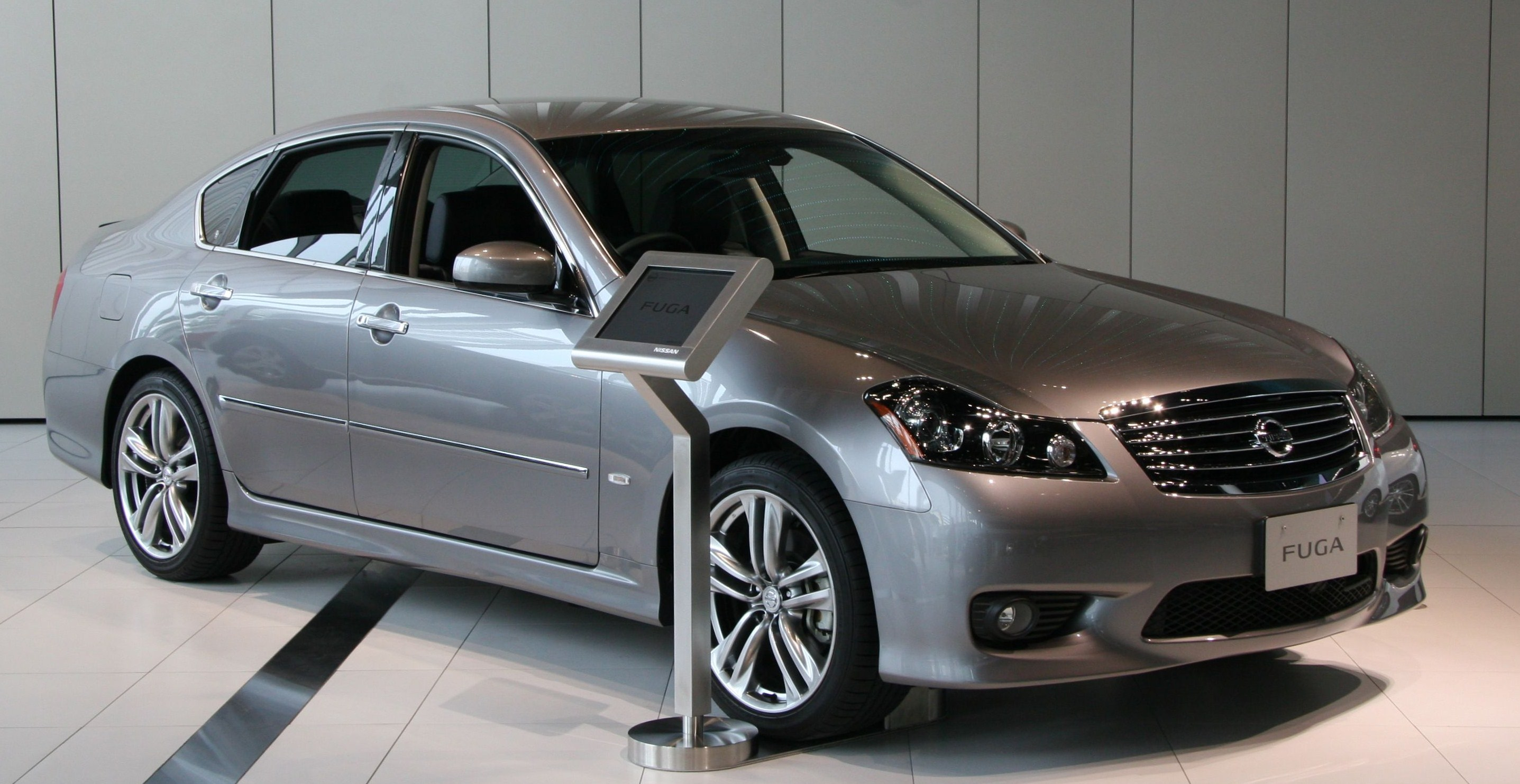 NISSAN FUGA